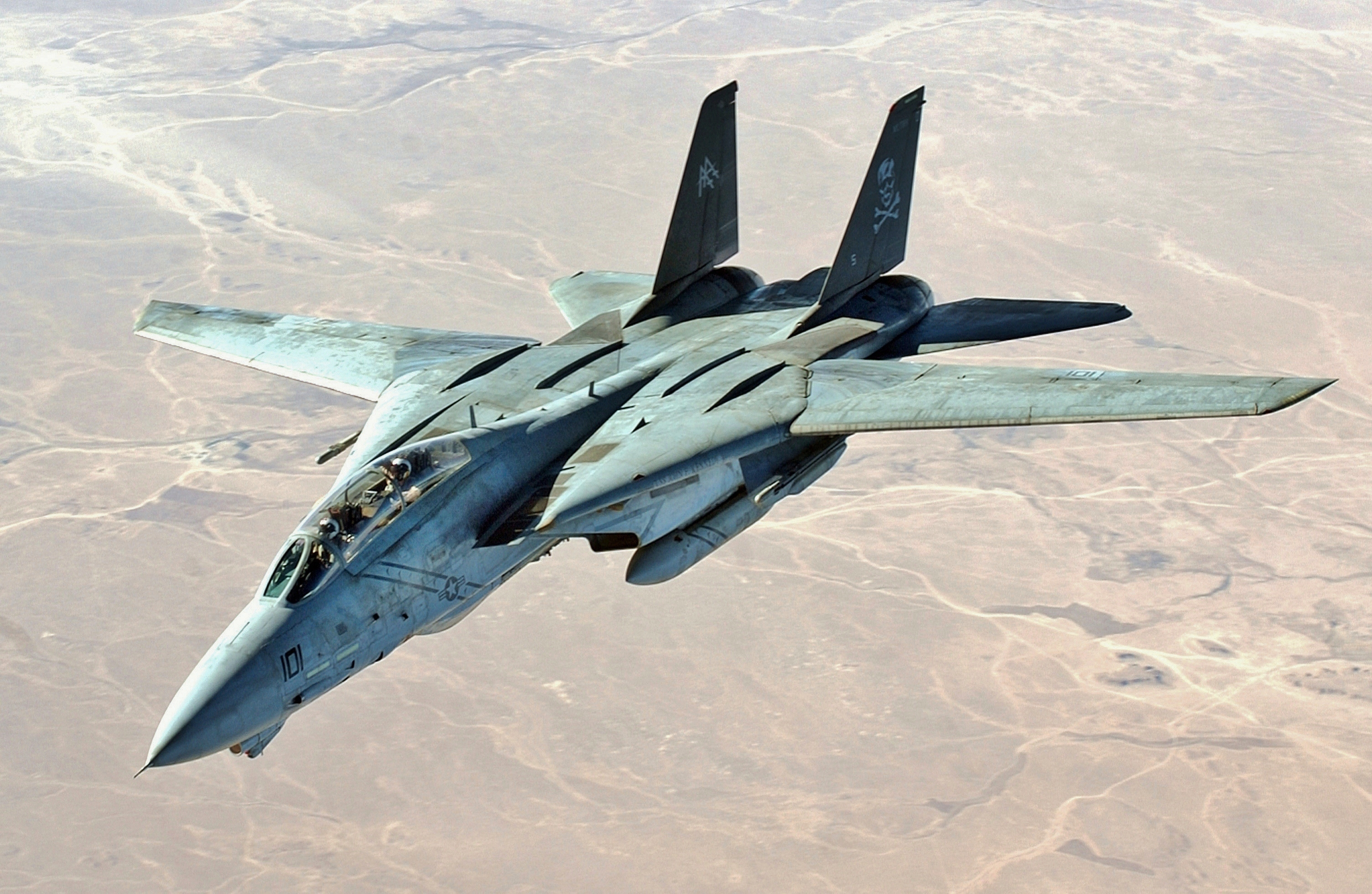 Aerial of a U.S. Navy F-14B Tomcat fighter from Fighter Squadron 103 (VF-103) in the sky over Iraq during a combat mission in support of Operation Iraqi Freedom.